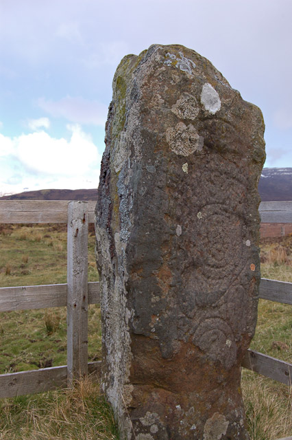 Clach Ard A close view of the markings on the south face of the Pictish Symbol Stone.